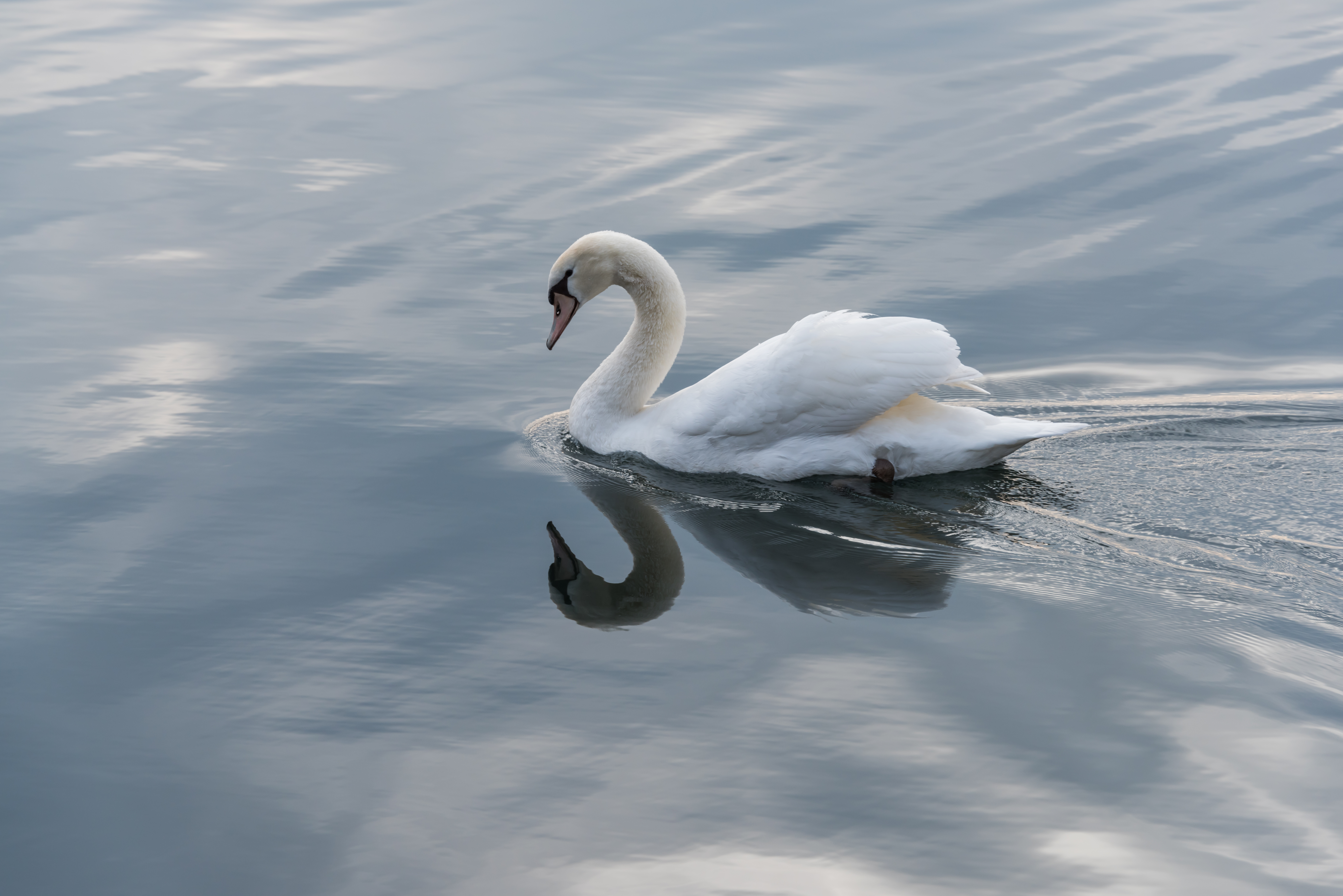 Cygnus olor at the Johannes Brahms Promenade, municipality Poertschach on the Lake Woerth, district Klagenfurt Land, Carinthia / Austria / EU